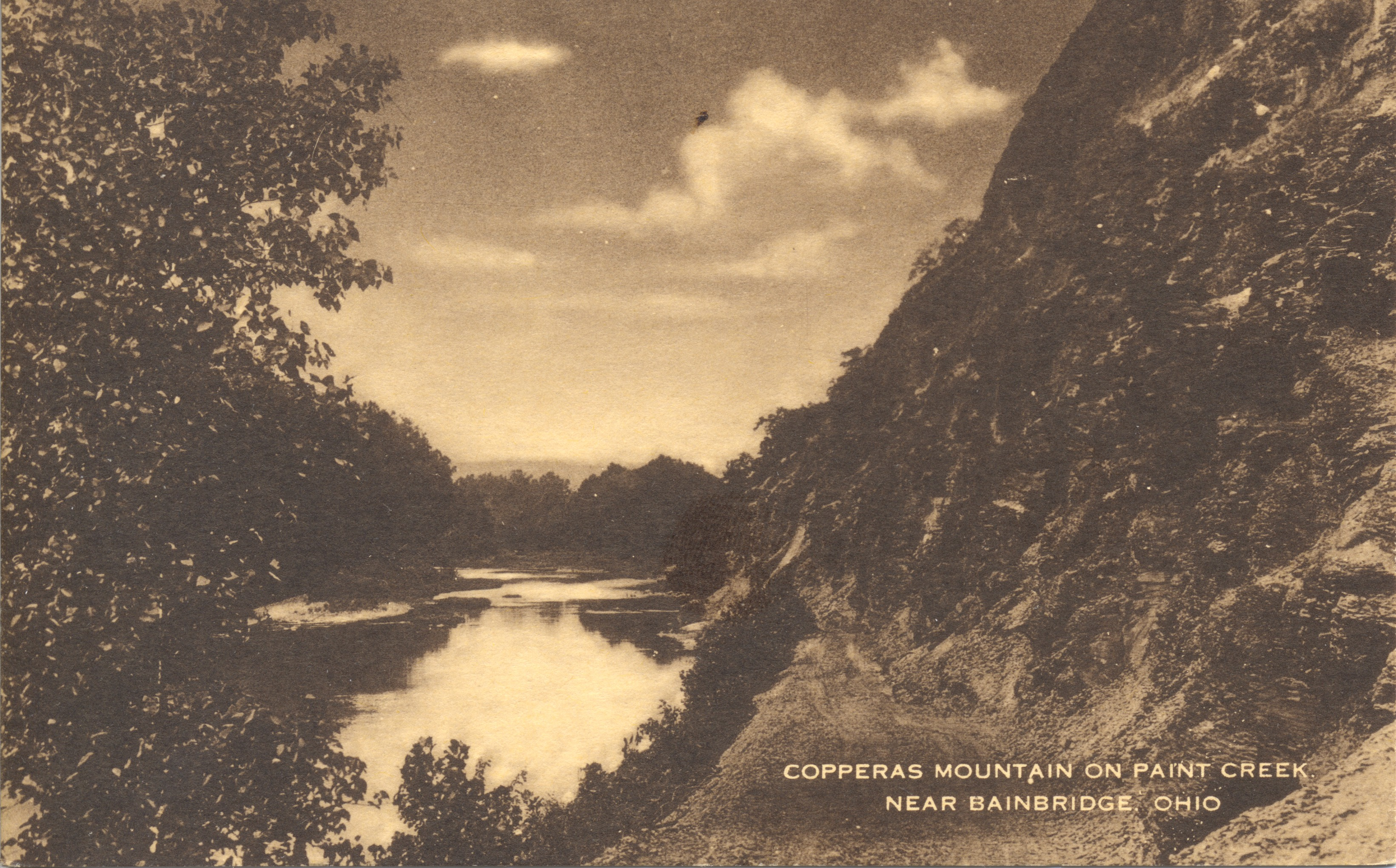 Persistent URL: Subject (TGM): Mountains; Landscape photographs; Ohio--Bainbridge